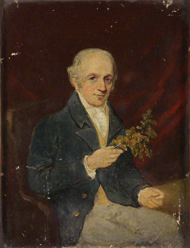 Portrait of Thomas Andrew Knight (1759-1838), FRS, of Elton Hall in the parish of Elton in Herefordshire (4 miles south-west of Ludlow) and later of Downton Castle (3 miles north-west of Elton), horticulturalist and botanist. He holds an Oak branch. Portrait dated January 1837 by Edmund Ward Gill (1794–1868), Hereford Museum and Art Gallery